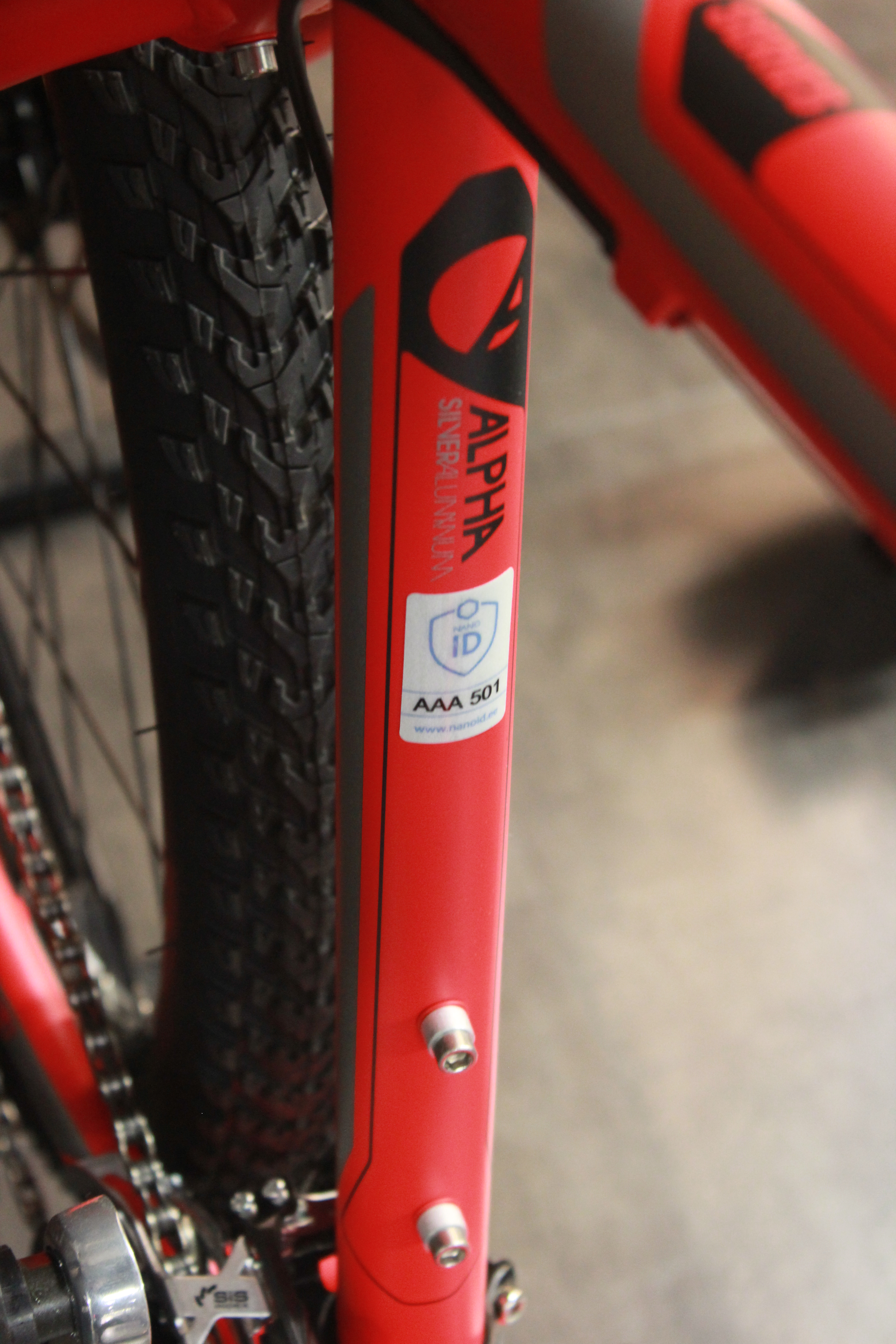 NanoID turvakleebis rattal